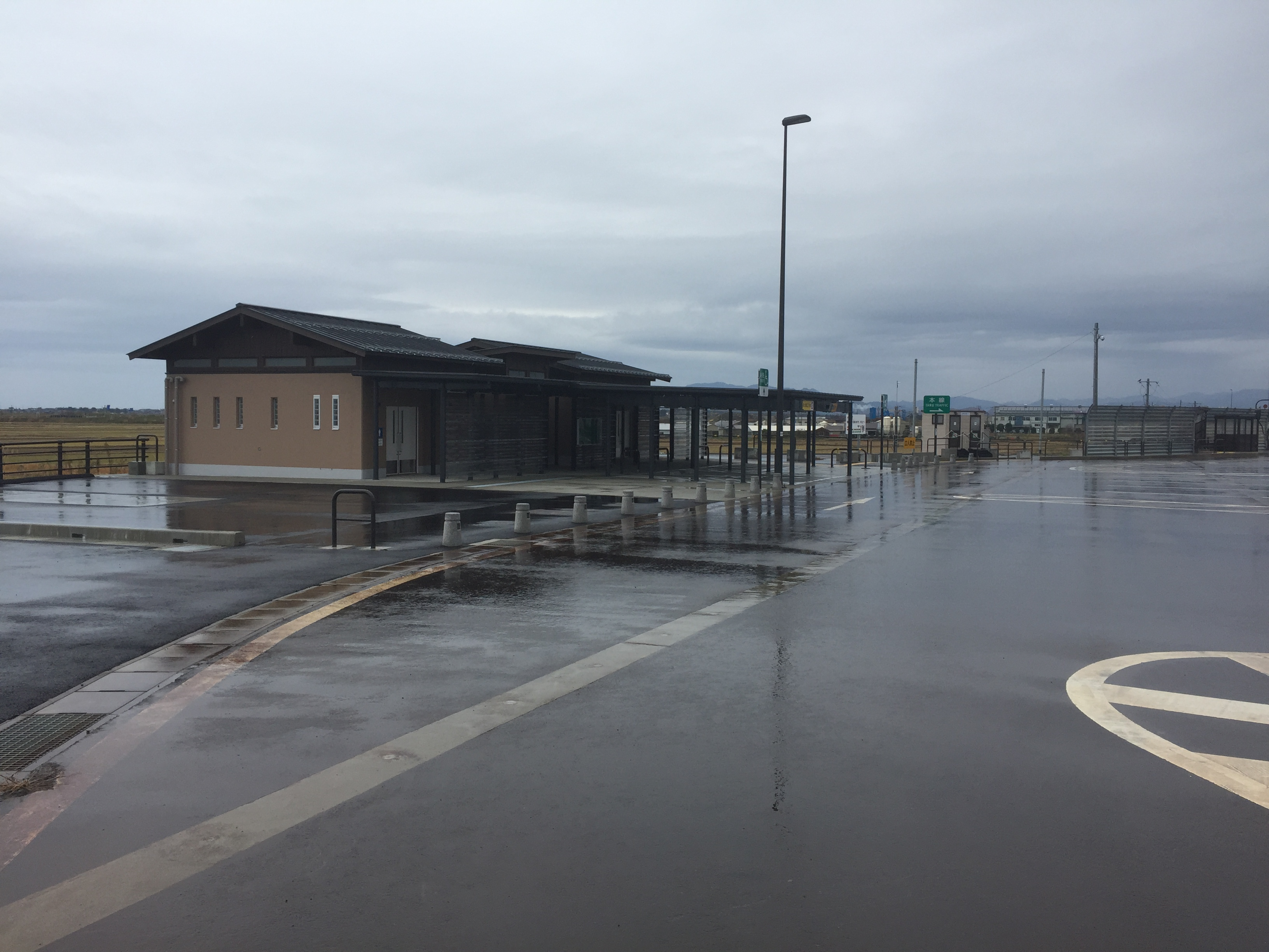 Arakawa Parking Area, Nihonkai-Tohoku Expwy, Japan.